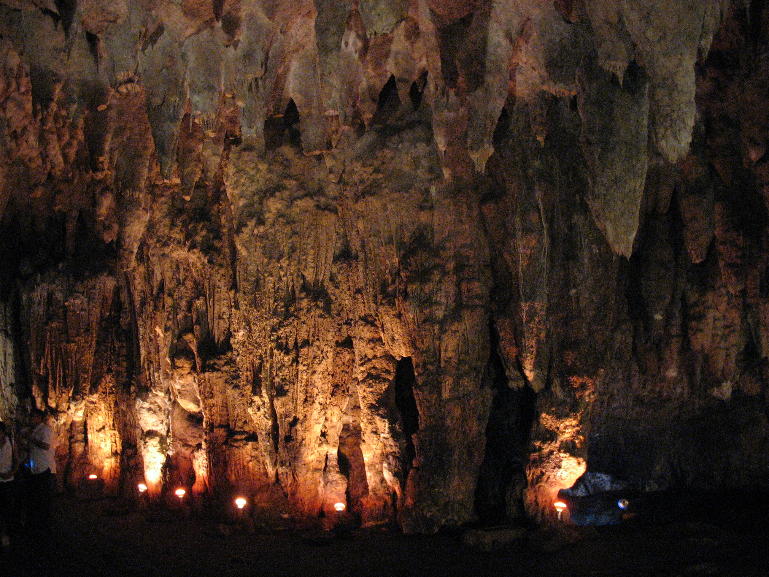 Loltun cave in Yucatan, Mexico